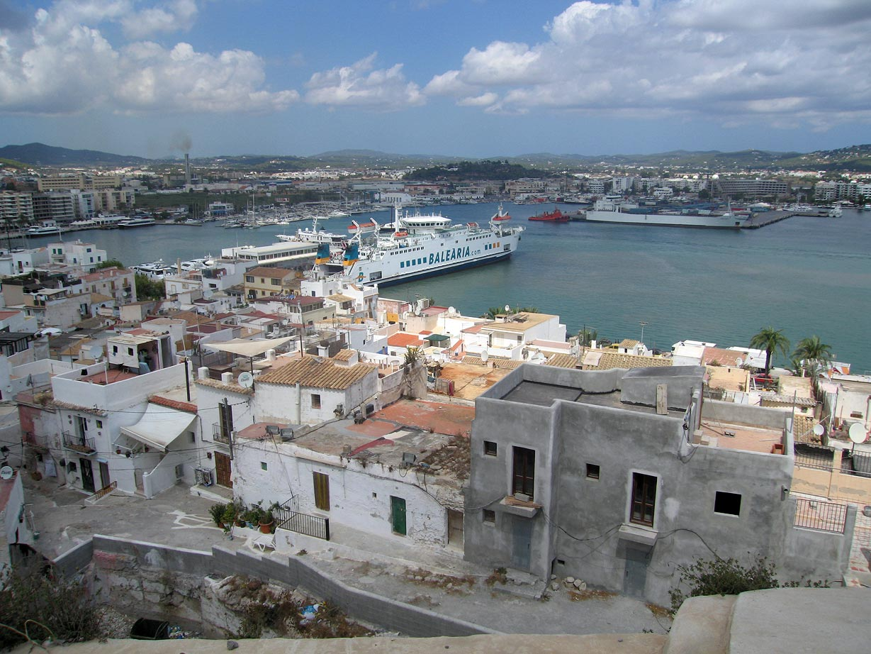 View of the port from the ramparts